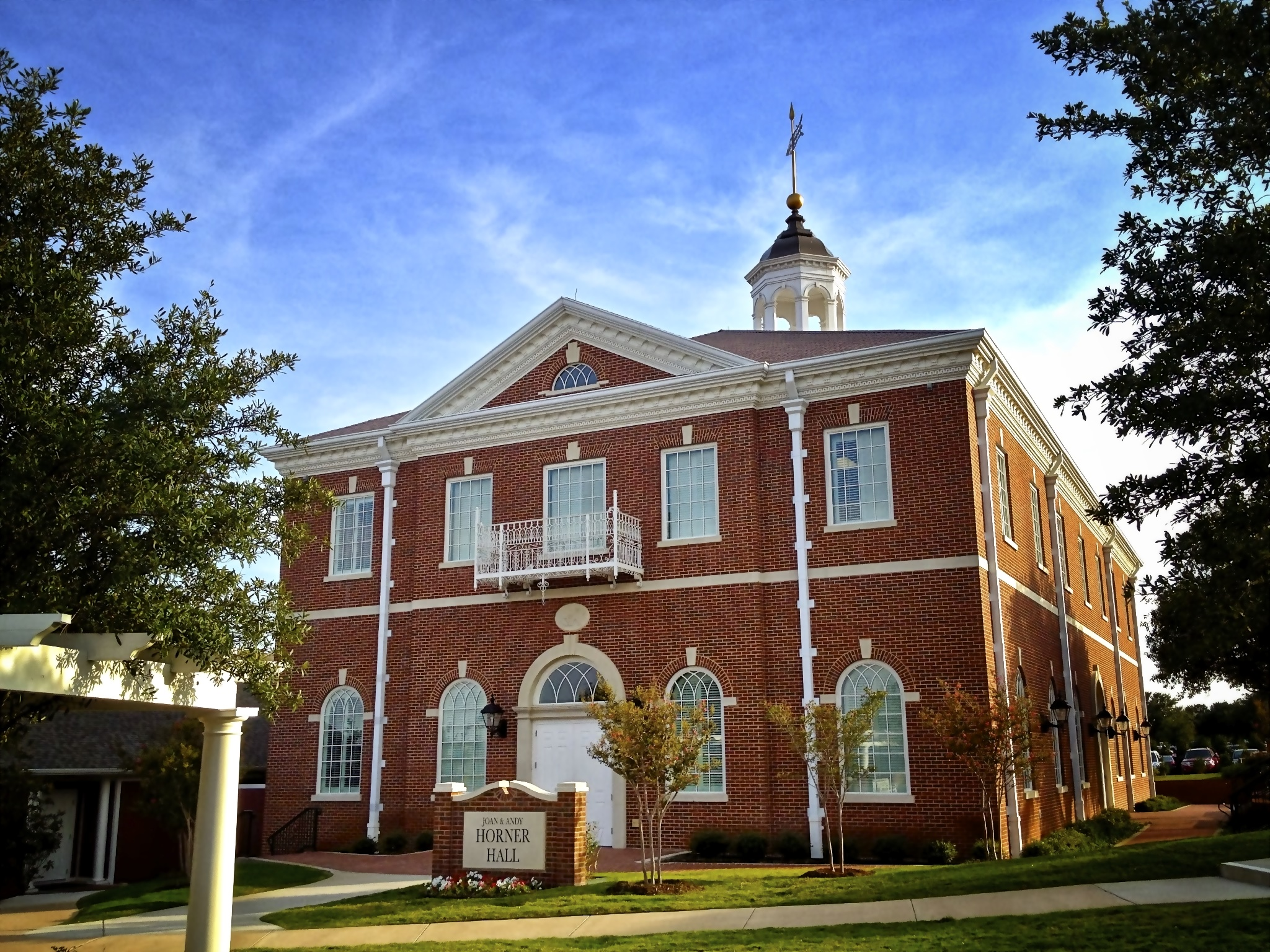 Joan and Andy Horner Hall of Dallas Baptist University. Completed in 2011, the building is an exact replica of Congress Hall of Philadelphia. The building houses the College of Fine Arts.